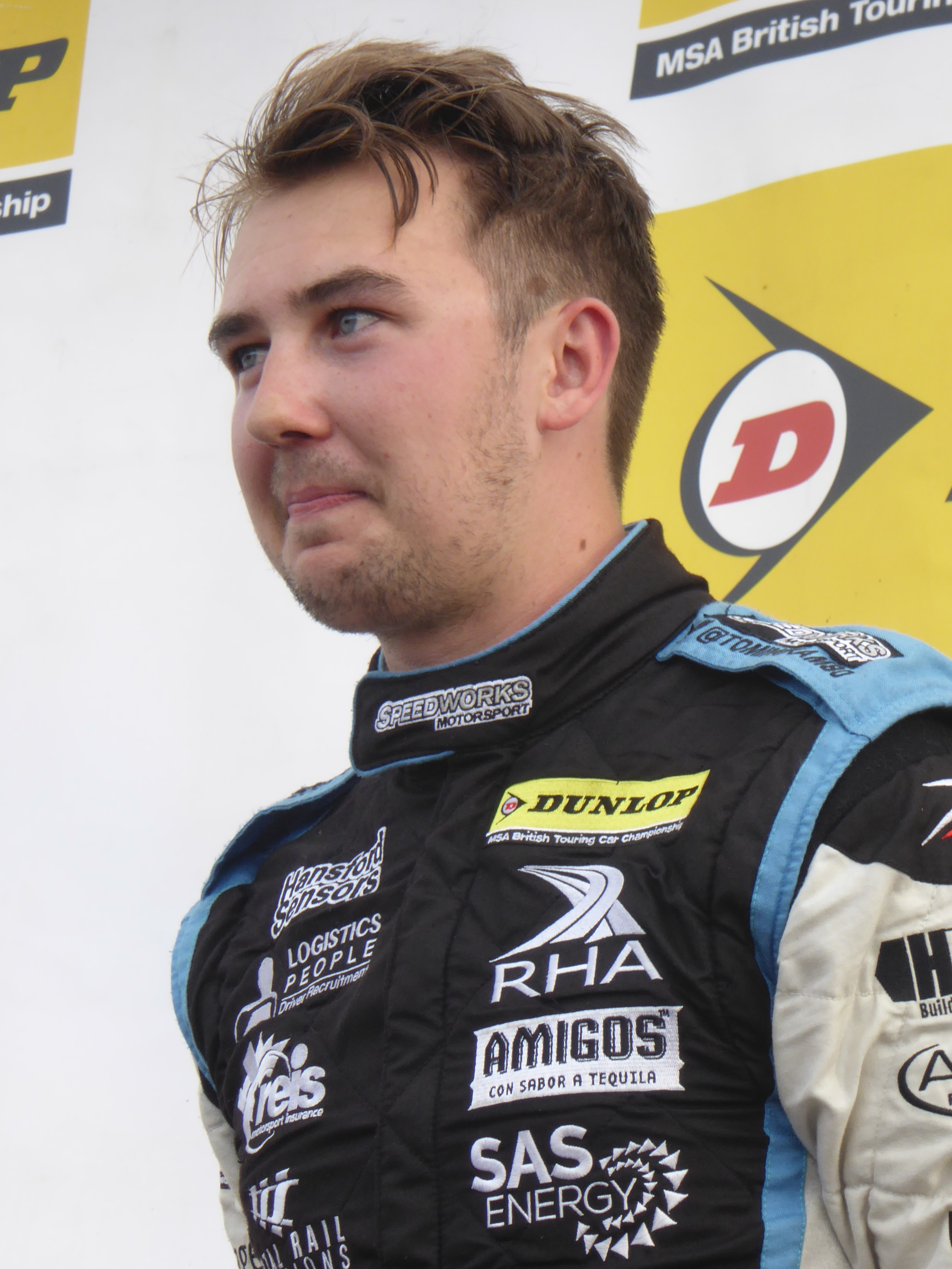 Tom Ingram (Speedworks Motorsport), who won Race 3, at the Knockhill round of the 2017 British Touring Car Championship. Ingram also won the Independents' Trophy for the race.